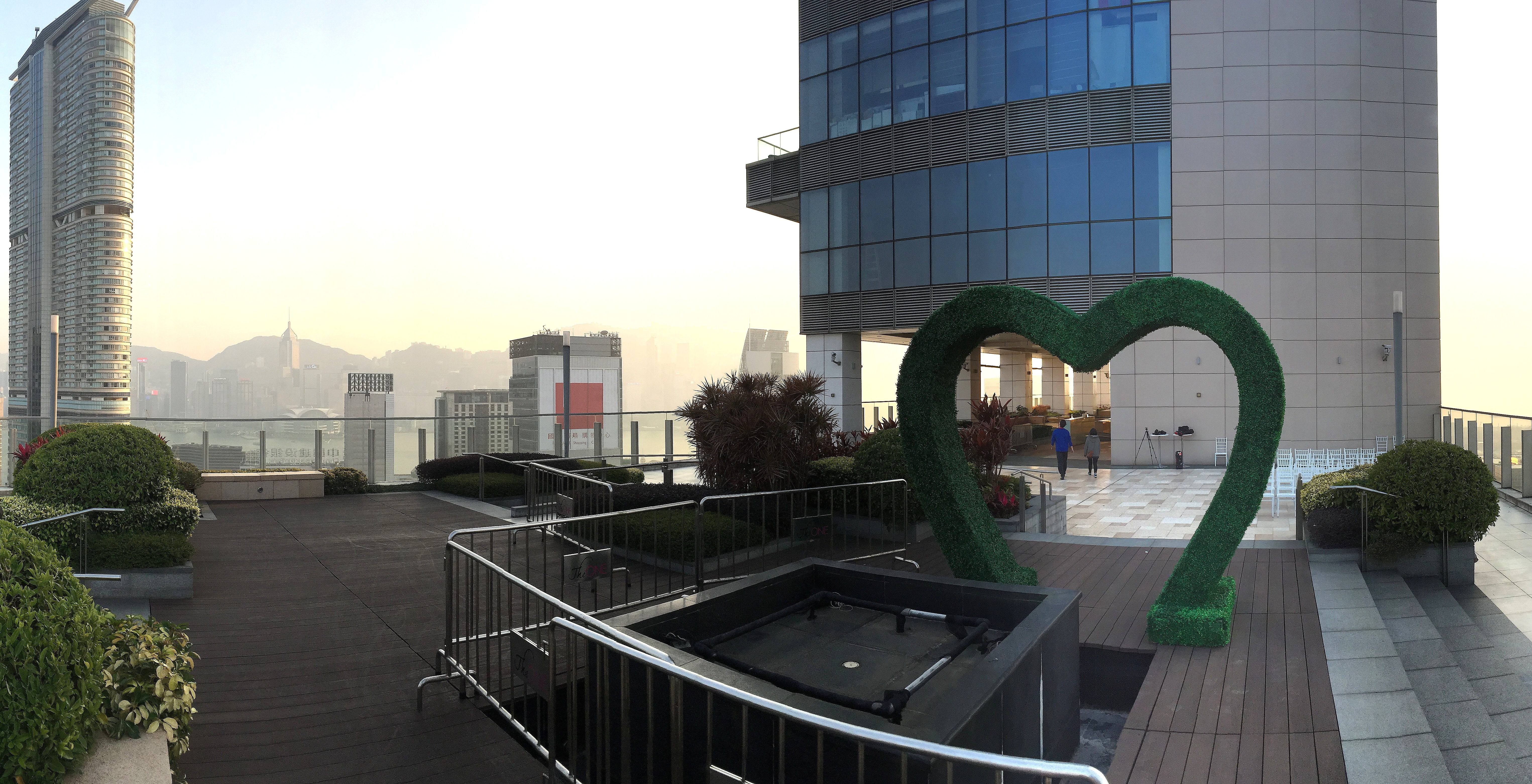 At The AIR, L16, The ONE, Hong Kong.